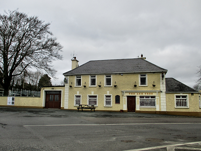 Public House in Ballywilliam, County Wexford